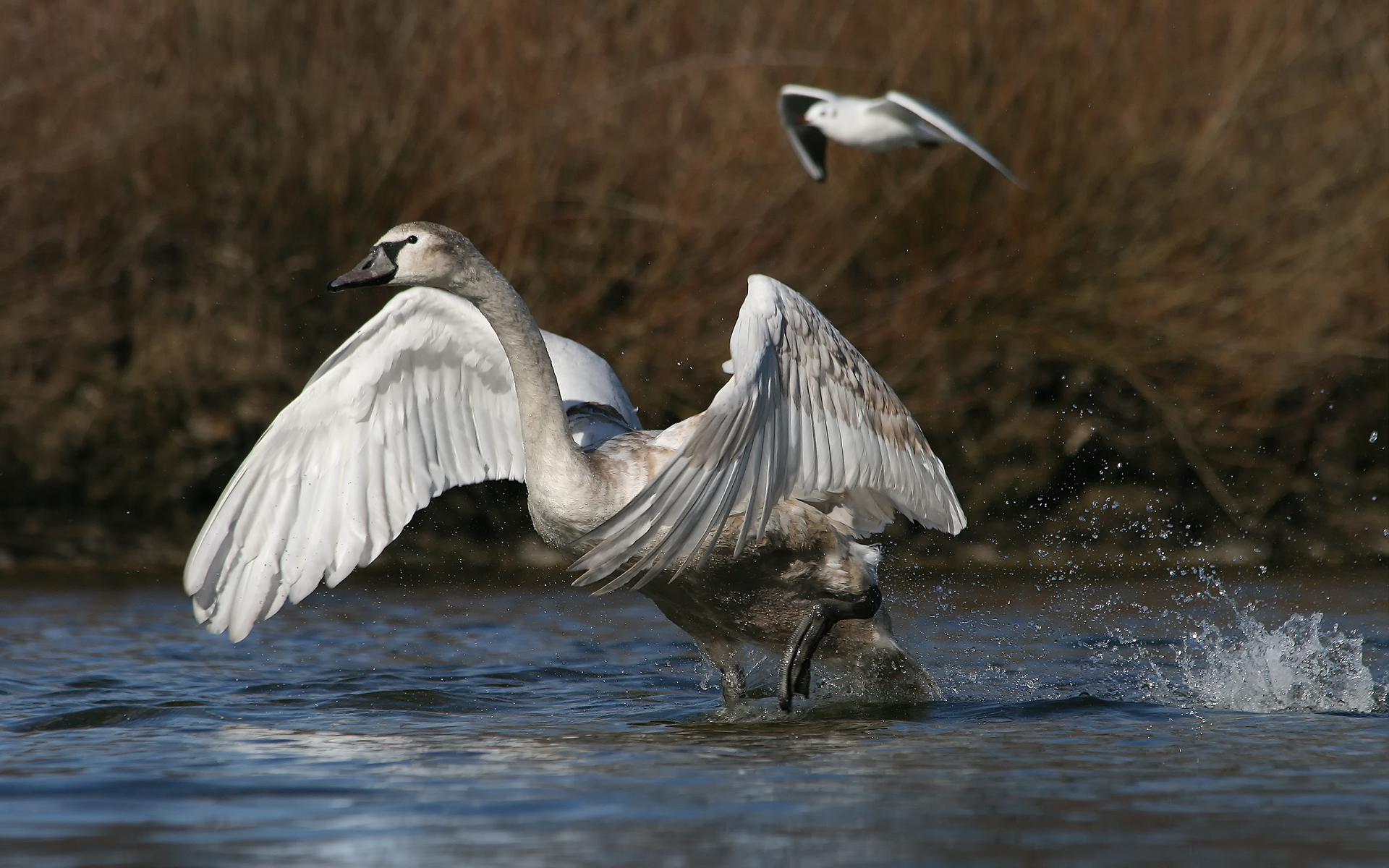 Description: The Mute Swan (Cygnus olor is a common Eurasian member of the duck, goose and swan family Anatidae. Both cygnus and olor mean "swan", in Ancient Greek and Latin, respectively.)